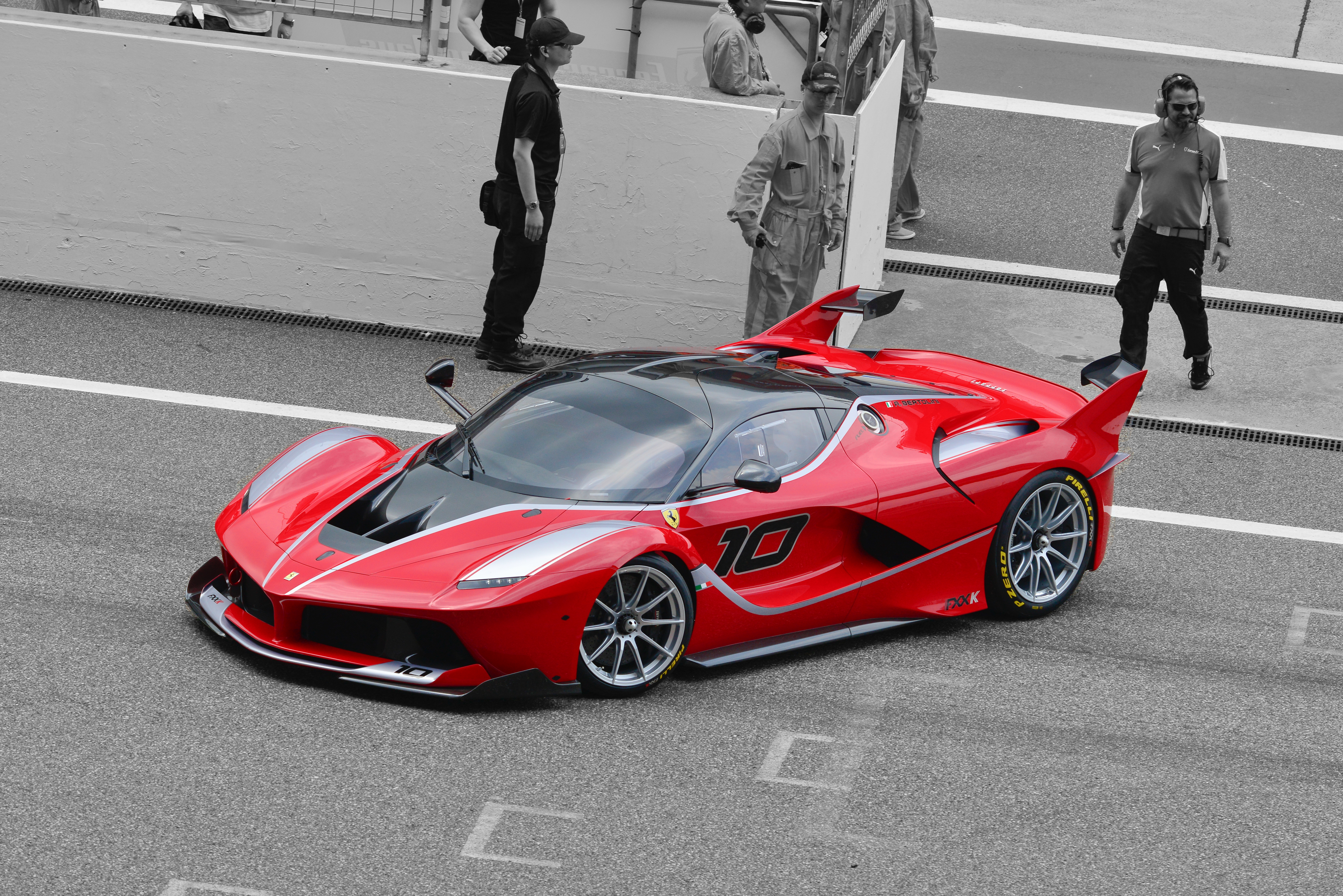 【Overview】 · Manufacturer Ferrari · Production 2015 【Body and chassis】 · Class Track day car · Development prototype · Body style 2-seat berlinetta · Layout Rear Wheel Drive · Related LaFerrari 【Powertrain】 · Engine 6.3 L naturally aspirated 1,036bhpF140 V12, electric motor & KERS · Transmission seven-speed paddle-shift dual-clutch automatic transmission 【Dimensions】 · Wheelbase 2,650 mm (104 in) · Length 4,896 mm (192.8 in) · Width 2,051 mm (80.7 in) · Height 1,116 mm (43.9 in) · Curb weight 1255kg dry Date from Wikipedia